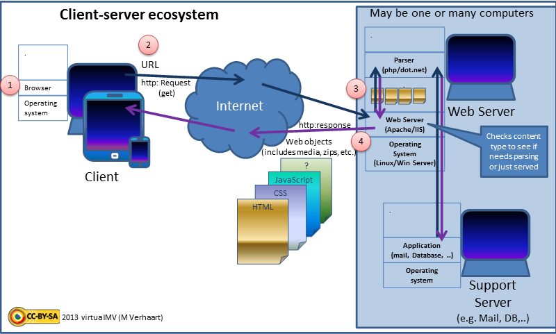 Client-Server Ecosystem. A high level model of interaction between hardware and software when communicating on the Internet.